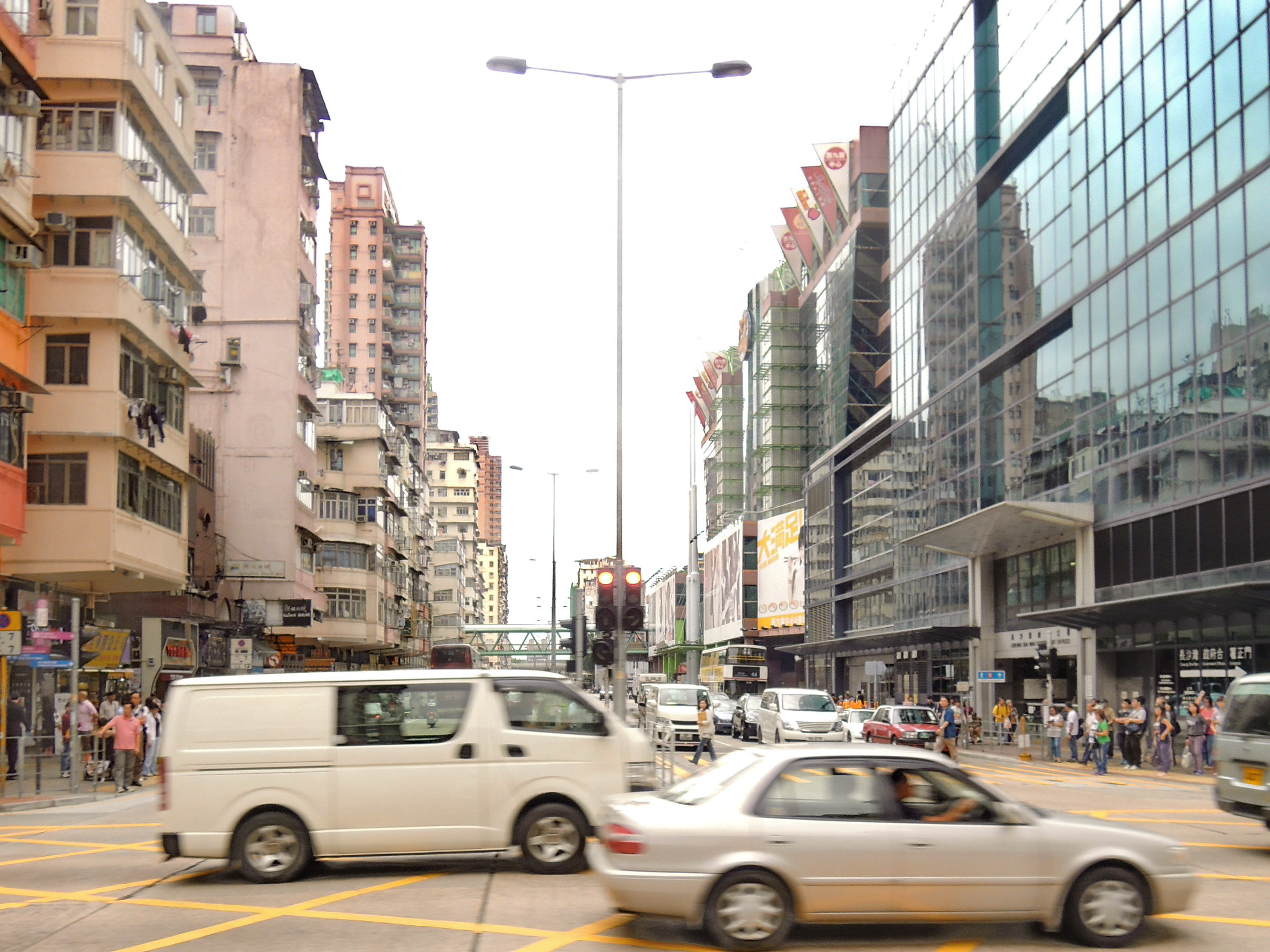 Yen Chow Street near Cheung Sha Wan Road, Sham Shui Po, Kowloon, Hong Kong.